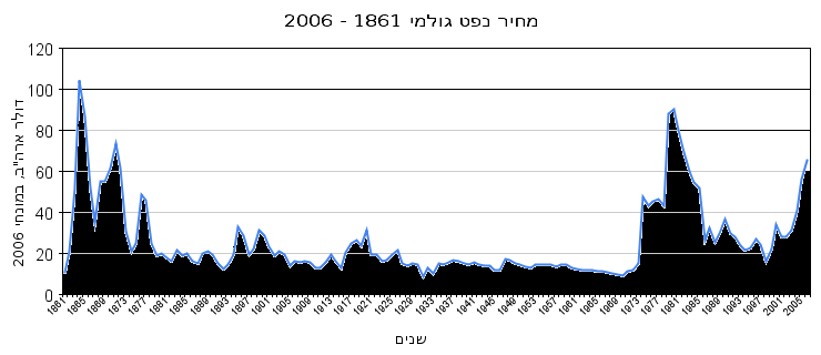 Crude oil prices year by year, 1861-2006, in 2006 dollar terms